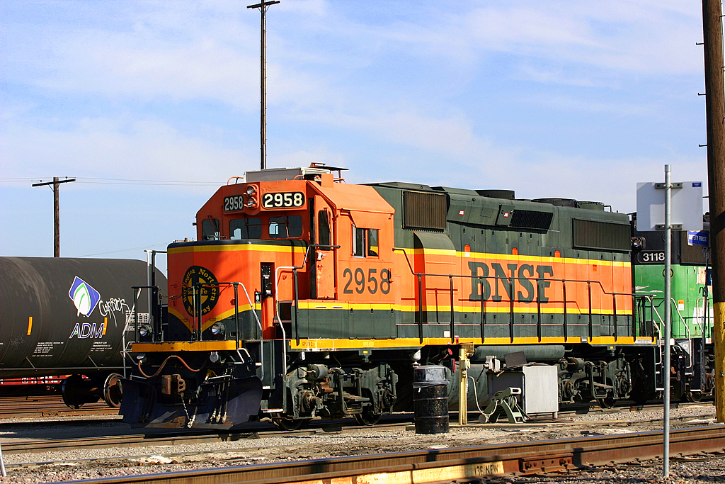 Power sits at Mormon yard on the old Santa Fe at Stockton Burlington Northern Santa Fe 2958 EMD GP39-2